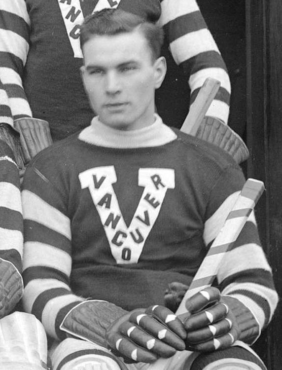 Hockey player Frank Nighbor of the Vancouver Millionaires club. The picture is a crop out of a larger team photo taken in the 1913–14 PCHA season.